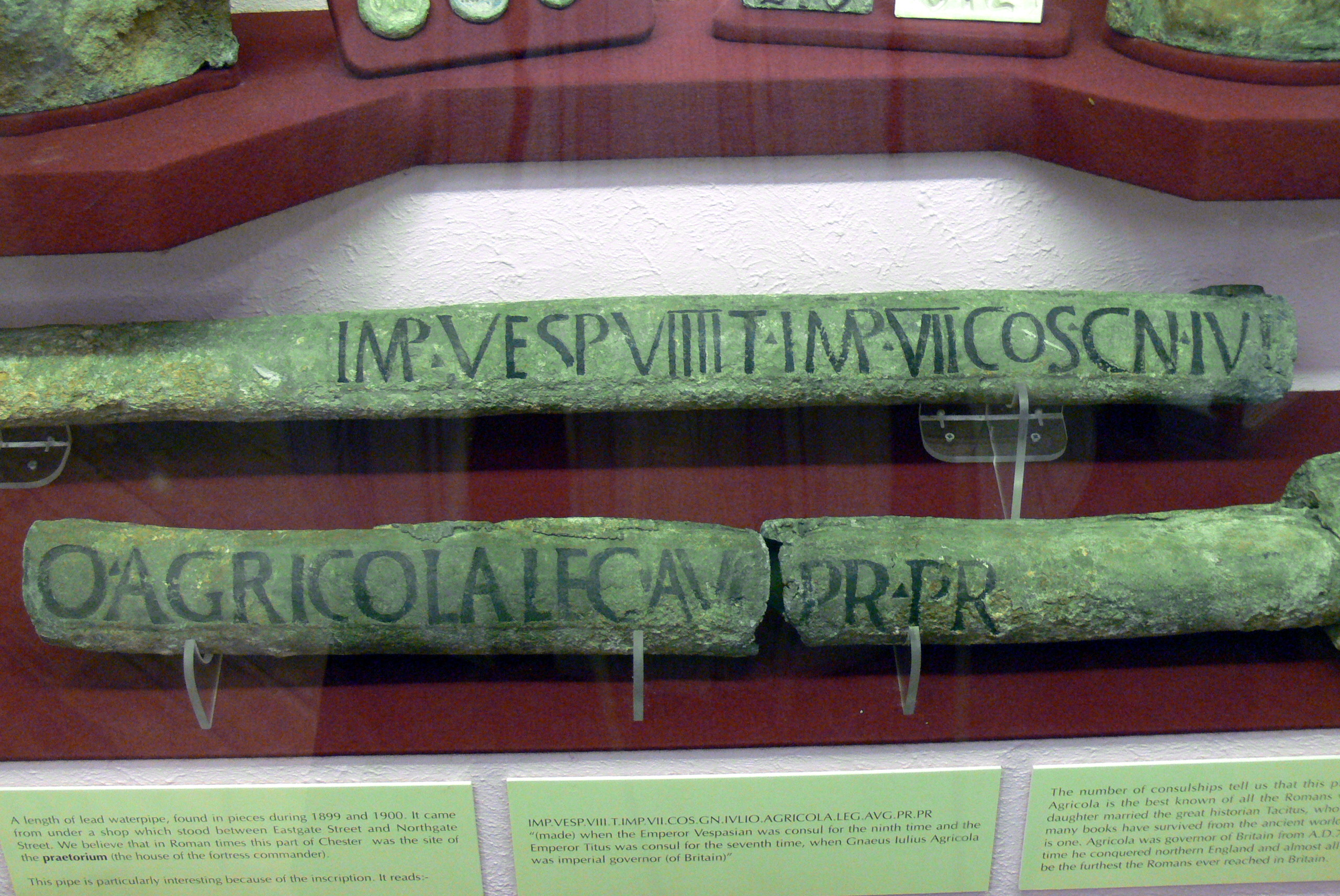 Chester ( England ). Grosvenor Museums: Ancient Roman lead water pipes ( 1st century ) with inscription .IULIO.AGRICOLA.LEG.AUG.PR.PR. ( (made) when the Emperor Vespasian was consul for the ninth time and the Emperor Titus was consul for the seventh time, when Gnaeus Iulius Agricola was imperial governor (of Britain)).